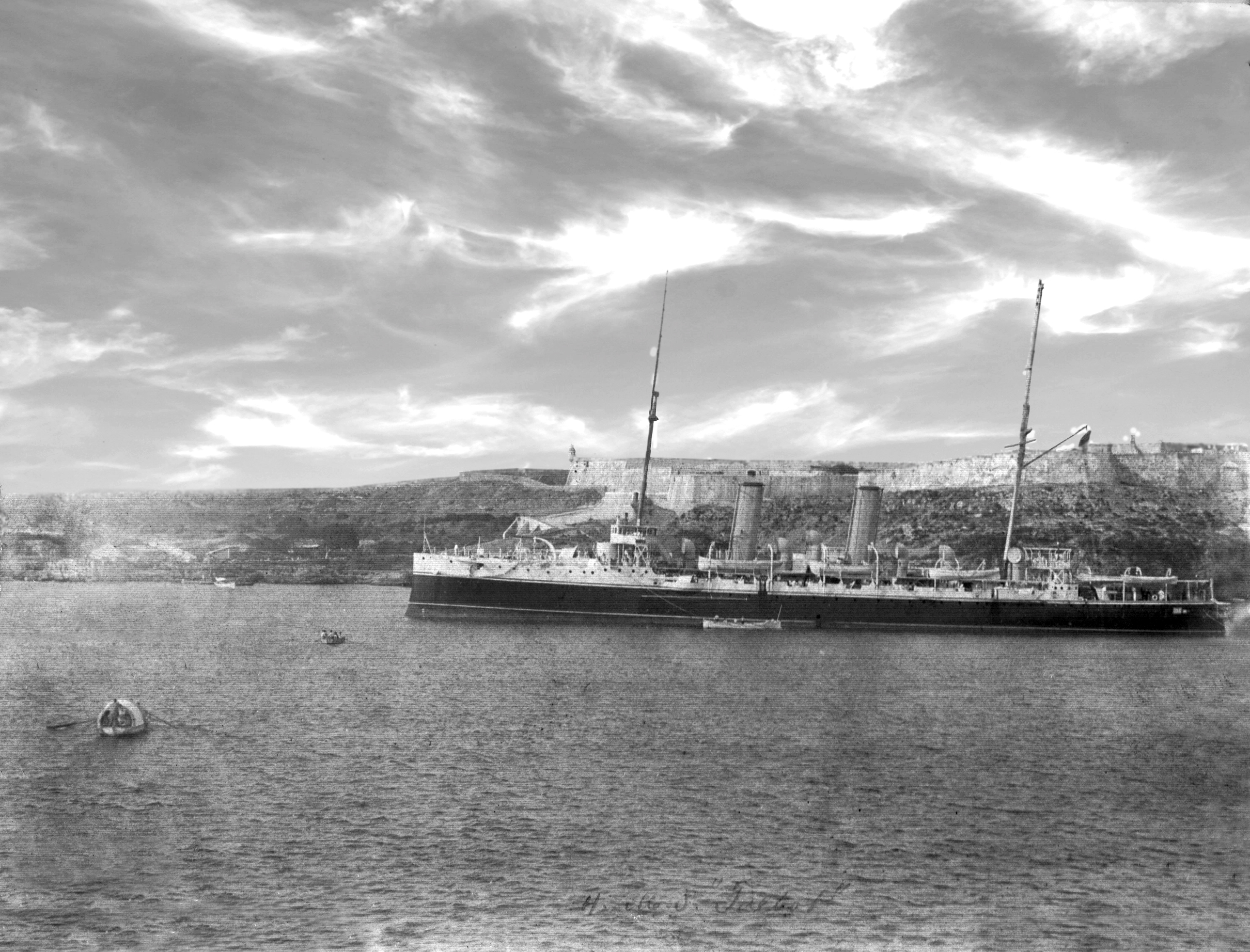 Talbot unknown Caribbean port, date unknown.